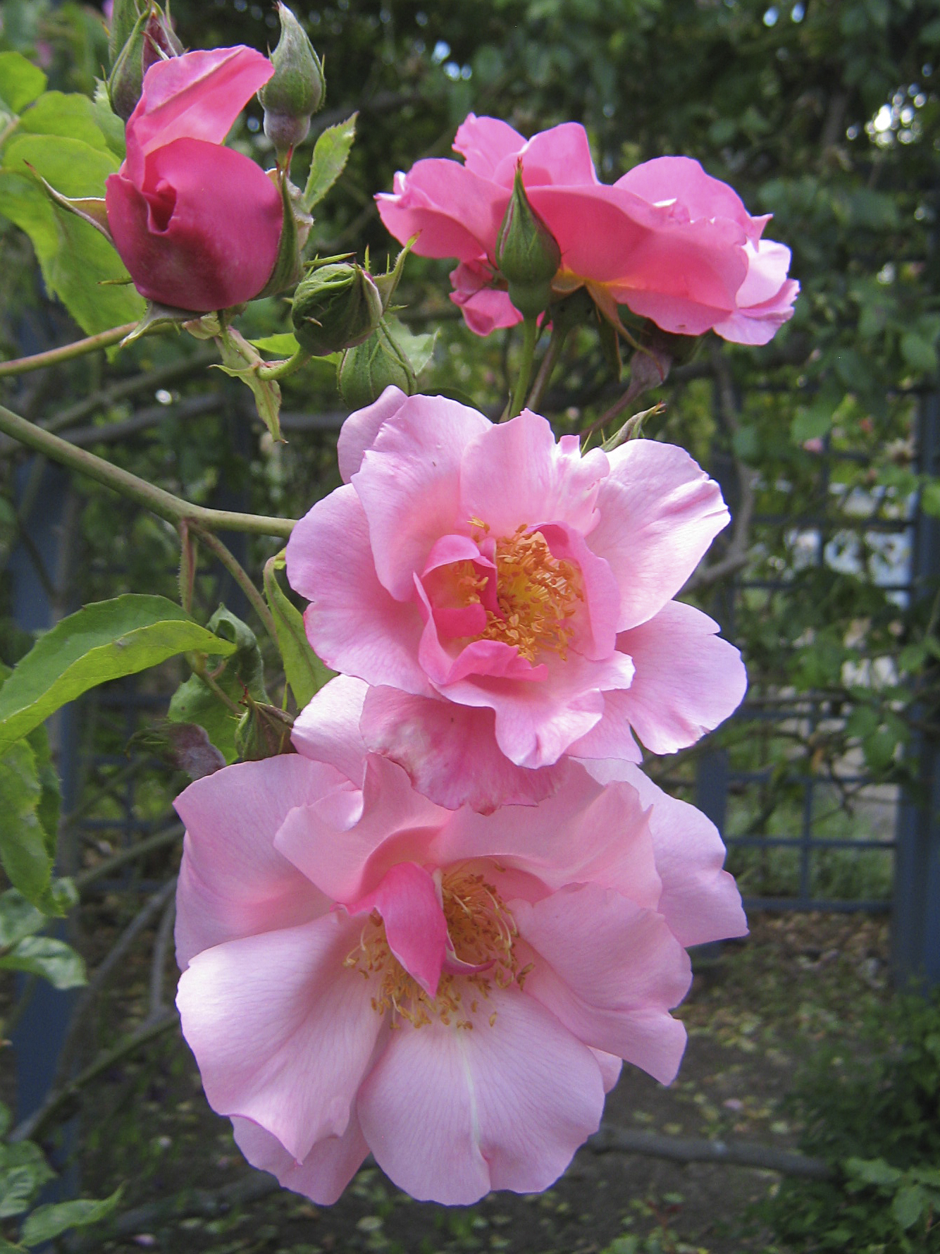 Rose 'Cicely Lascelles' Hybrid Tea climber by Alister Clark 1932. Photographed at the Alister Clark Memorial Rose Garden, Bulla, Victoria